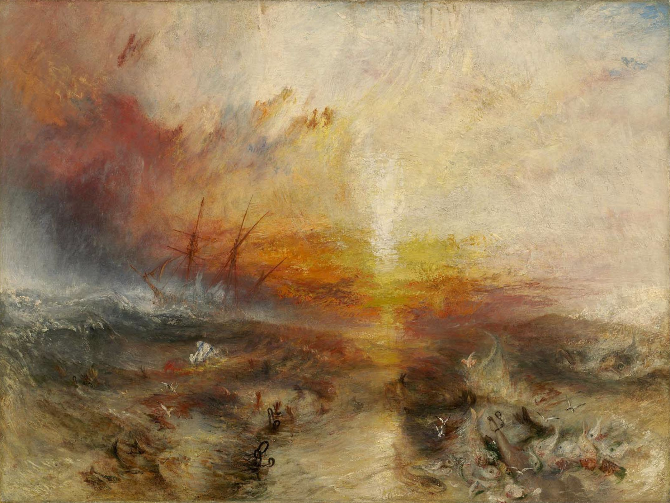 Slavers throwing overboard the Dead and Dying — Typhoon coming on ("The Slave Ship")